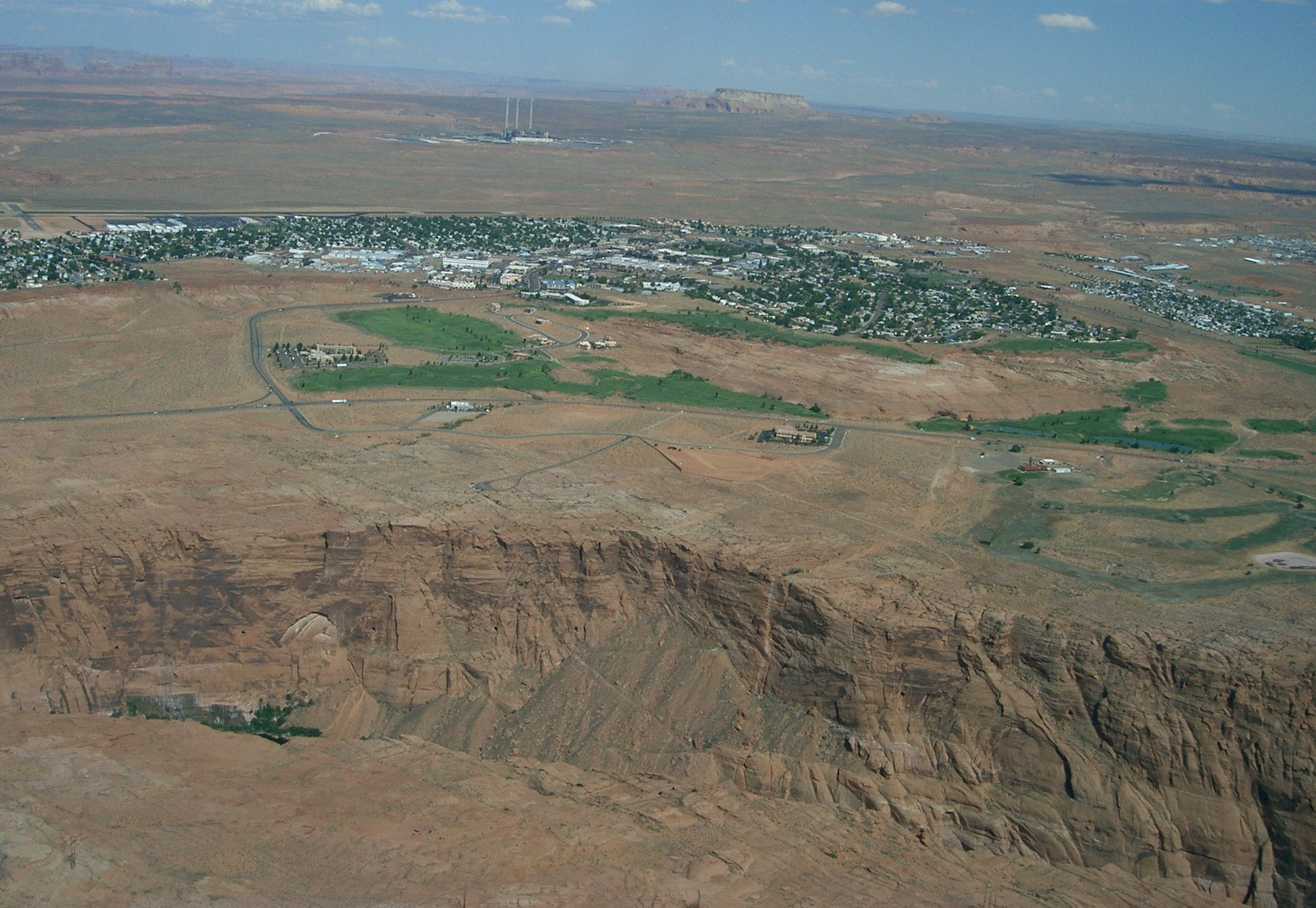 city of Page, Lake Powell; Arizona, USA (from plane)